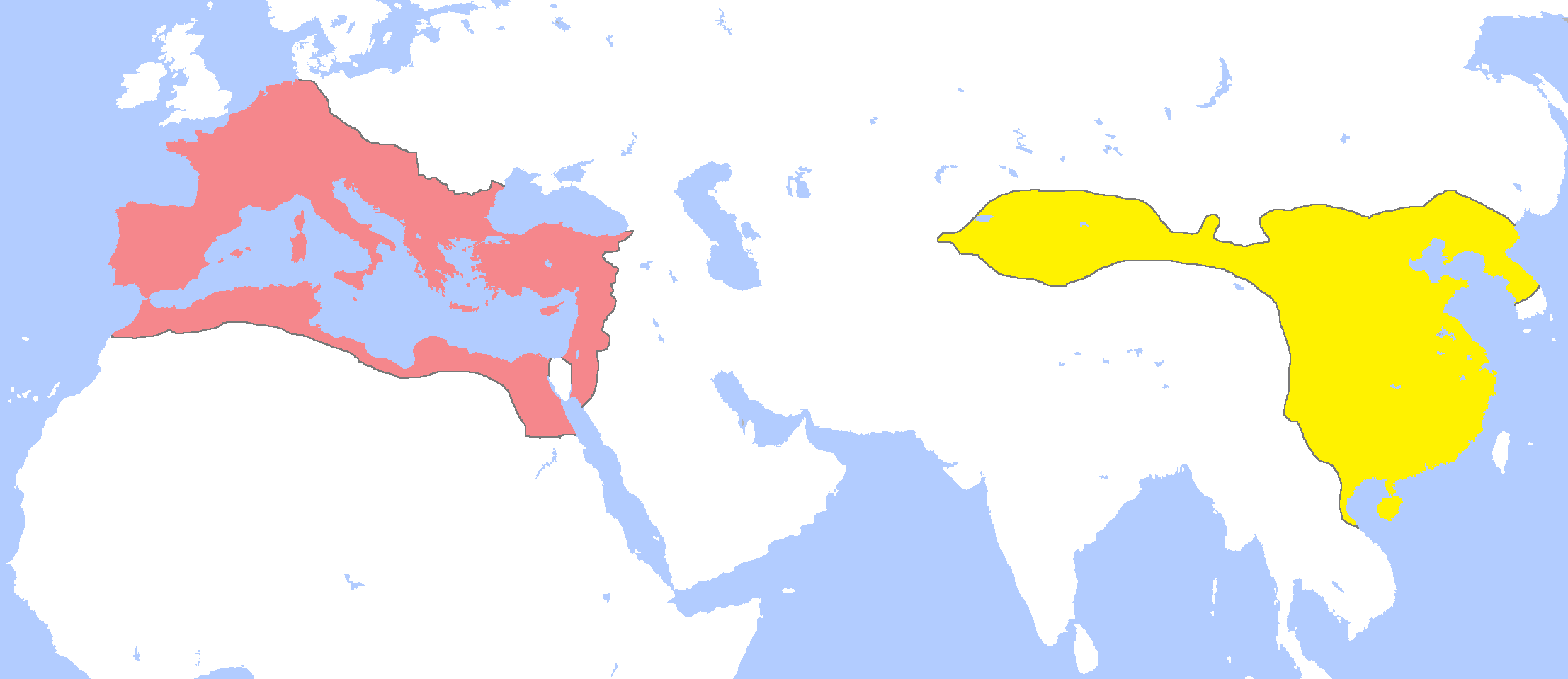 Locator map for the Roman Empire and the Chinese Han dynasty, c. AD 1. (Partially based on Atlas of World History (2007) - World 250 BC - 1 AD)